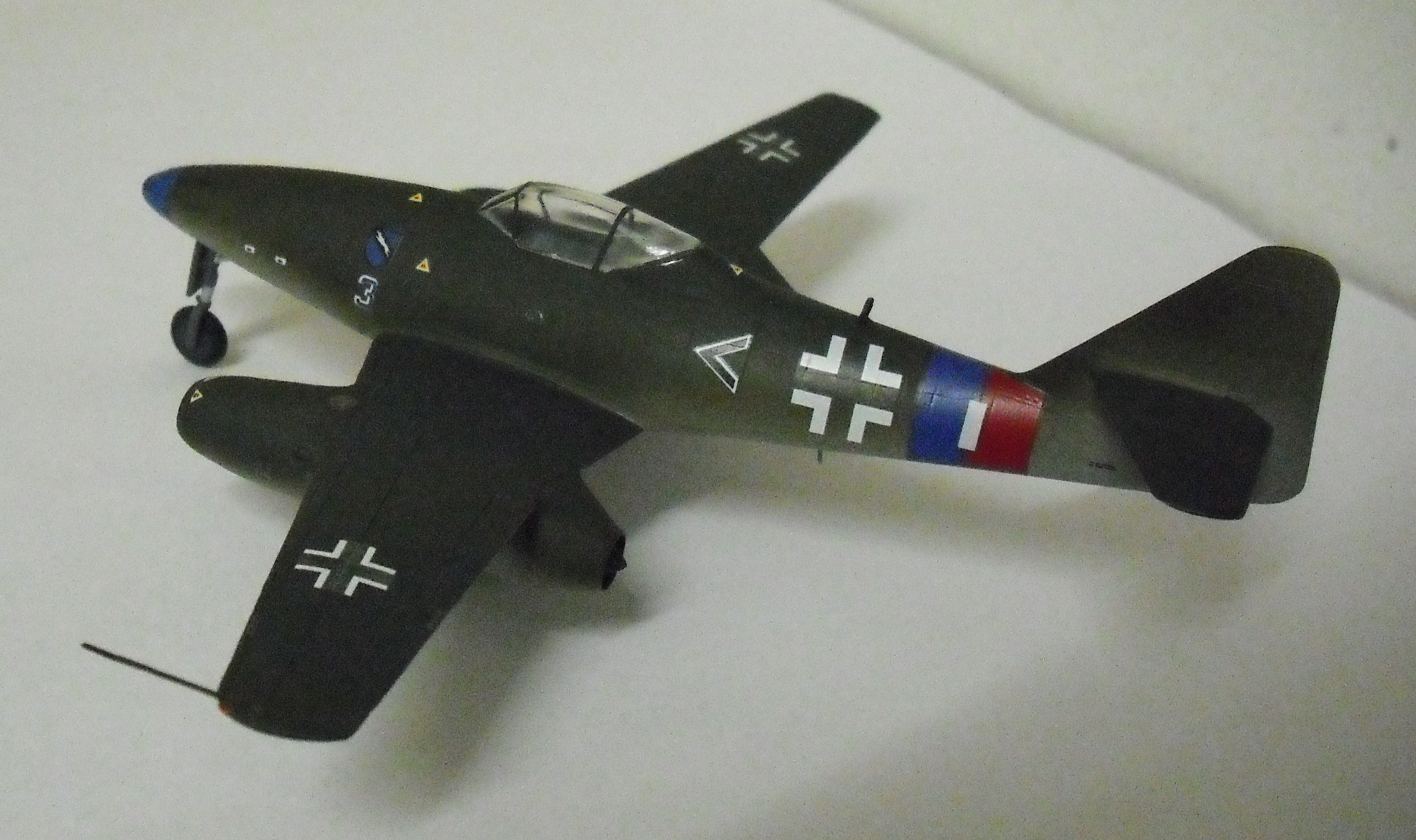 A Revell 1/72 scale model of a Messerschmitt Me 262 jet fighter airplane.